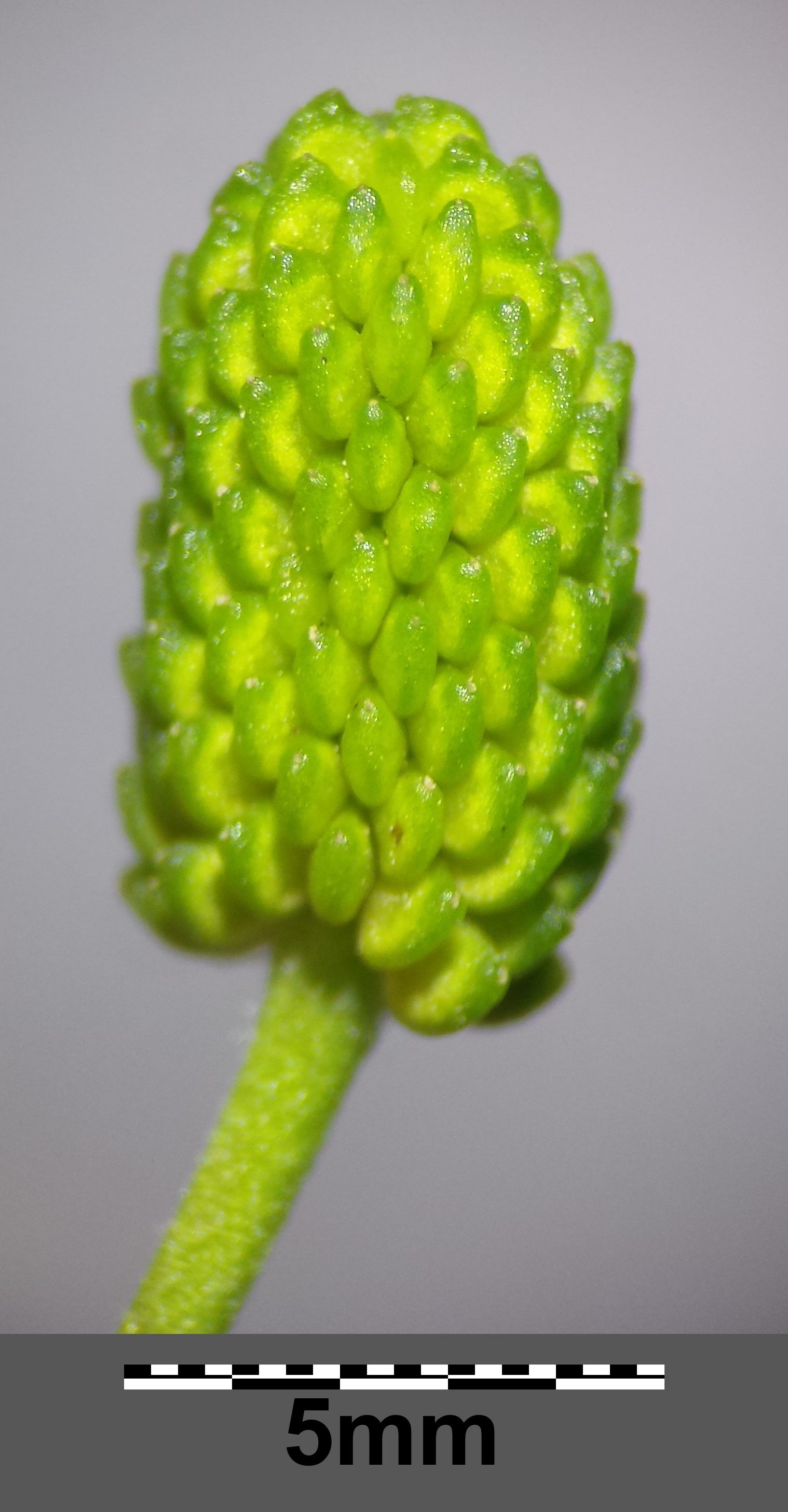 Fruit with nutlets Taxonym: Ranunculus sceleratus ss Fischer et al. EfÖLS 2008 ISBN 978-3-85474-187-9 Location: pond near Michelstetten, district Mistelbach, Lower Austria - ca. 250 m a.s.l. Habitat: shore of a pond